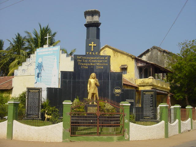 Bartholomäus Ziegenbalg monument in Tranquebar, Tamil Nadu, South India.